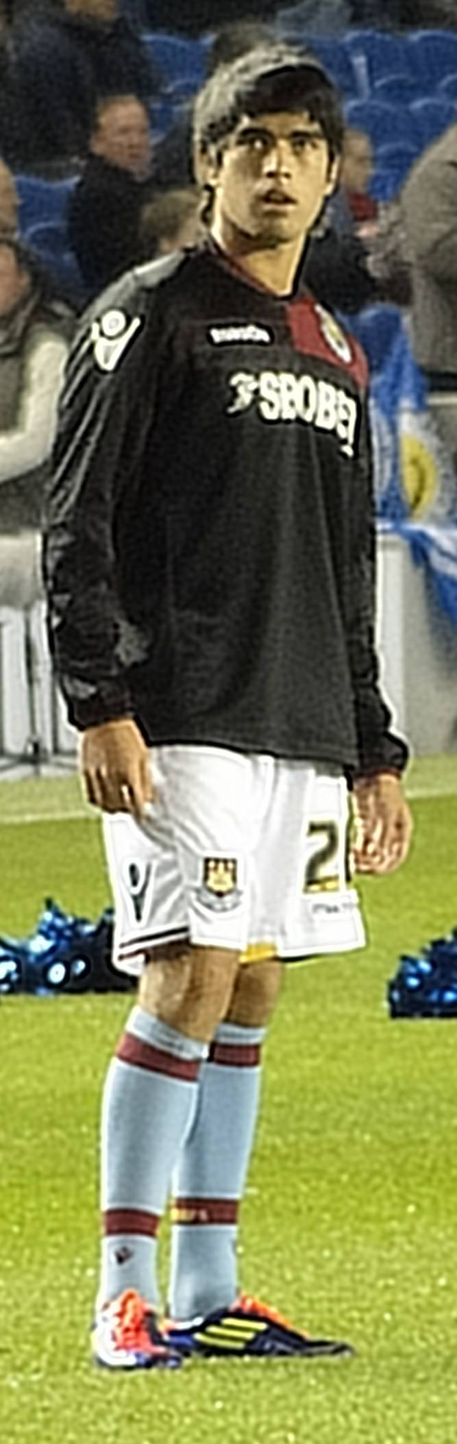 West Ham player, Brian Montenegro, warming-up before their game against Brighton & Hove Albion, at The Amex Stadium, 24 October 2011. He didn't play and was not on the substitute's bench